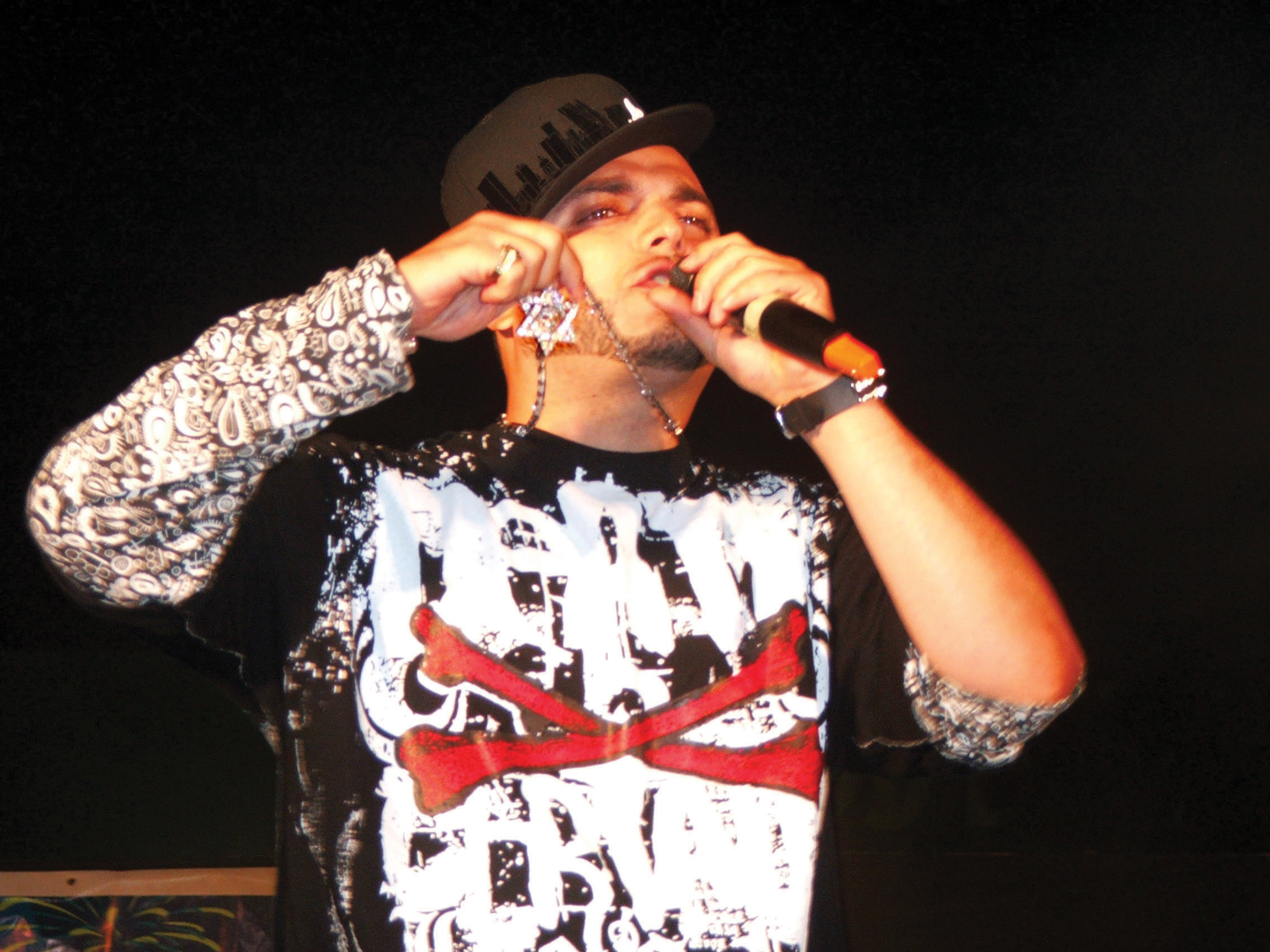 the israeli raper subliminal with a star of david necklace in a show